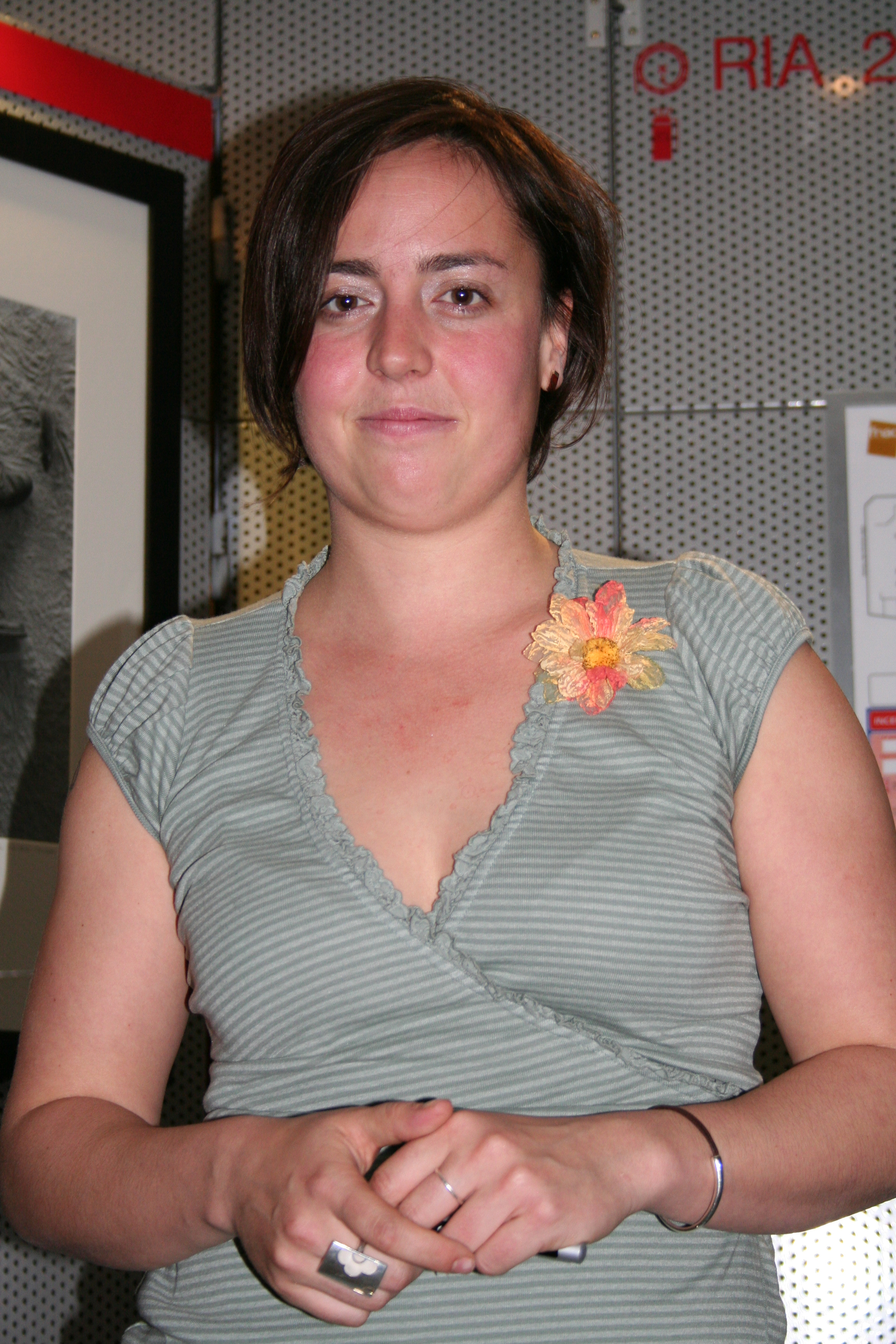 Show-case with Ariane Moffatt at Fnac des Ternes (Paris, France).